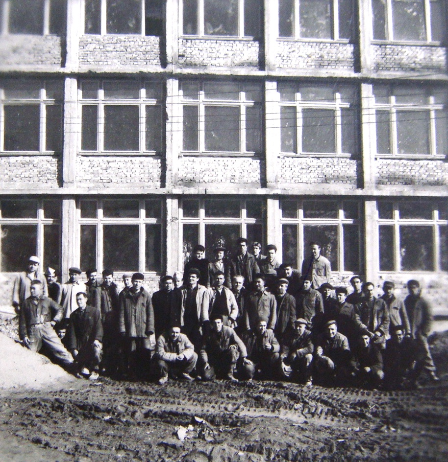 1963 Skopje earthquake: Georgi Dimitrov high school under construction, a gift from Bulgaria, 1965 This media file is produced by Wikipedian in Residence in Category:Wikipedian in Residence at DARM in 2016.